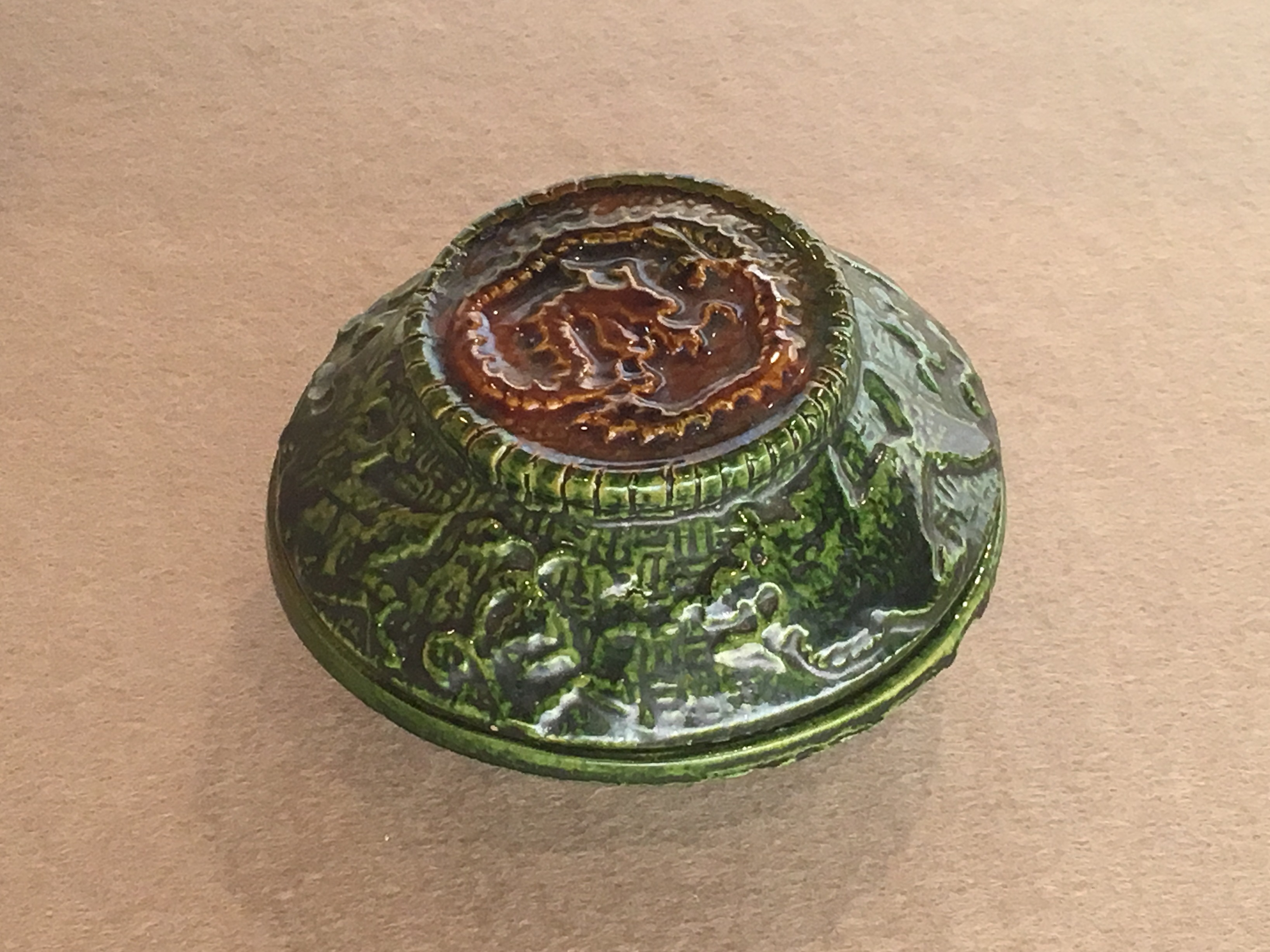 Incense box, Kōchi style, dragons design, green glaze. By RIKEI, Toyoraku ware. Edo period, 18th century. Mouth Diameter: 7.2 cm Diameter: 9.6 cm Other: 5.8 cm (bottom diameter)